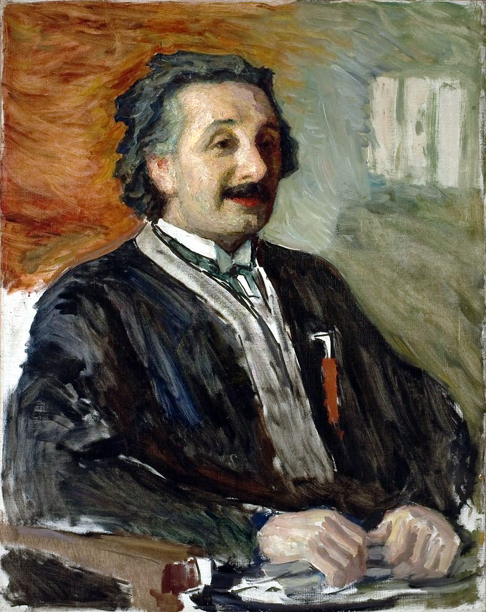 The portrait of Albert Einstein